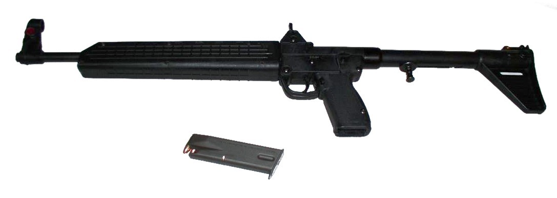 A Kel-Tec Sub 2000 9mm, with 15rd Beretta magazine.